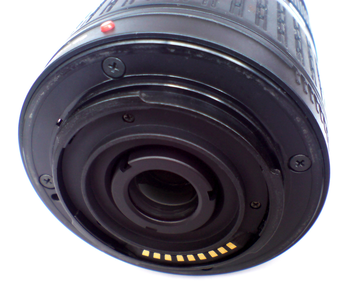 4:3 (four thirds) lens mount